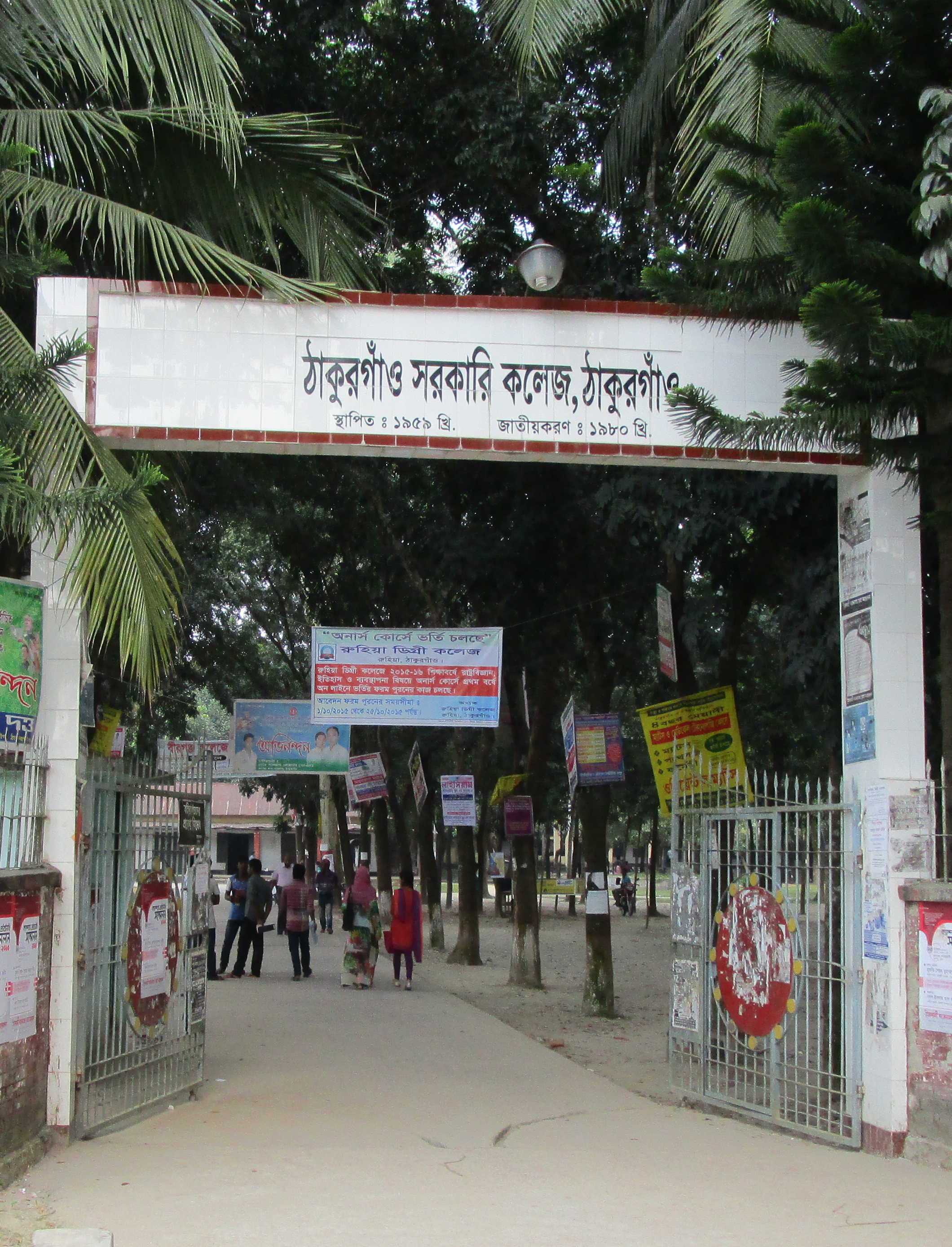 The nameplate of Thakurgaon Govt College.